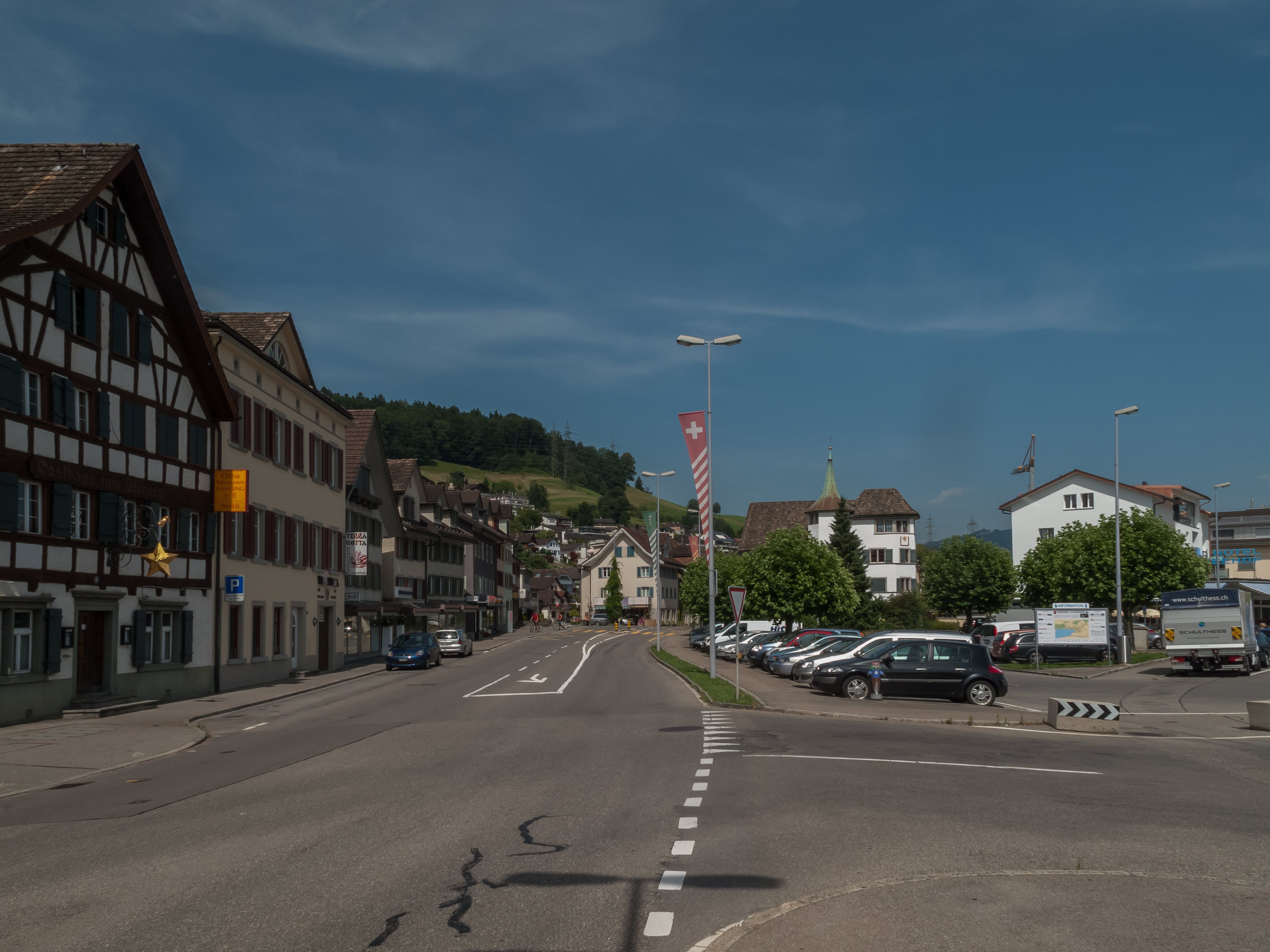 Schmerikon, view to the street